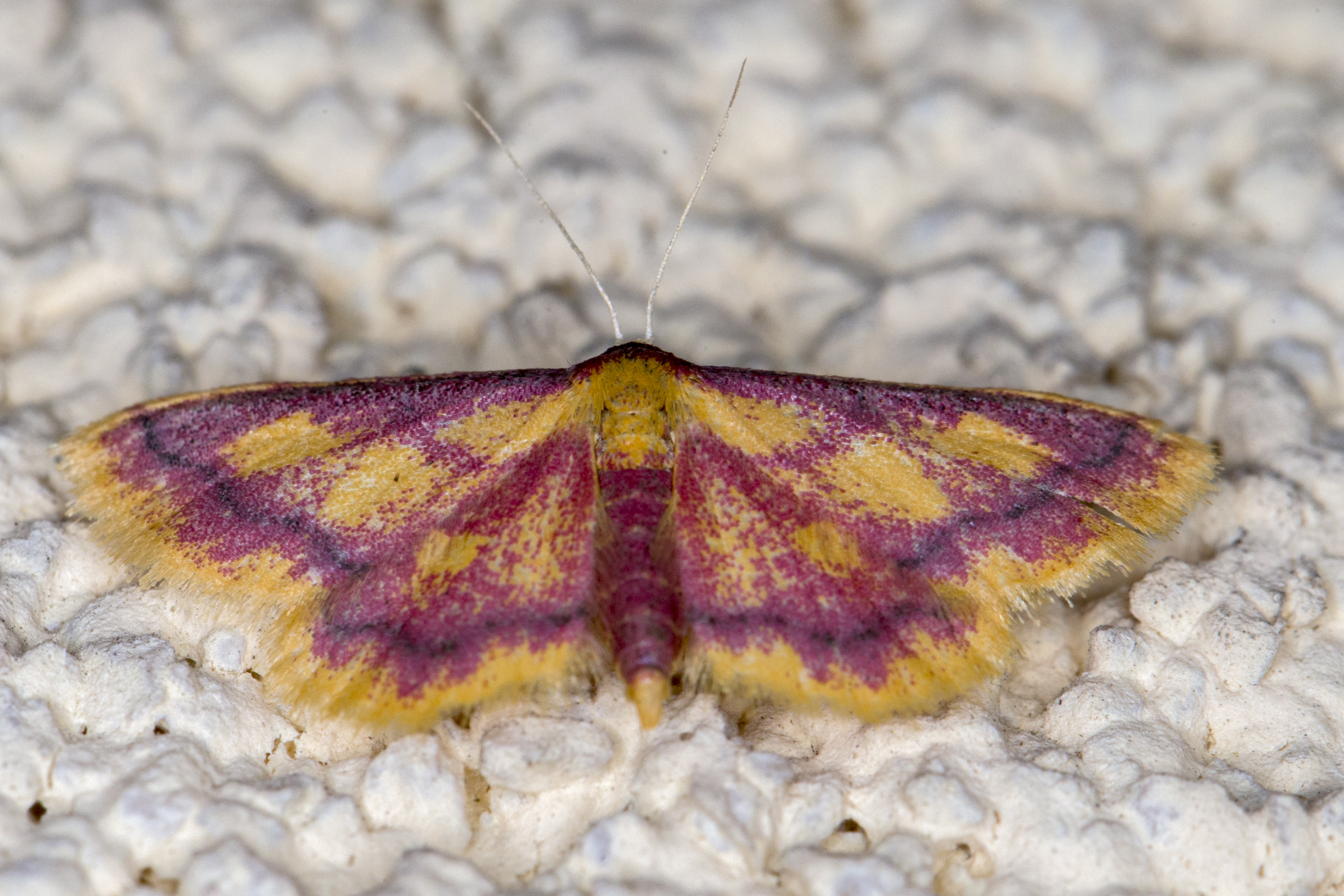 The Purple-bordered Gold